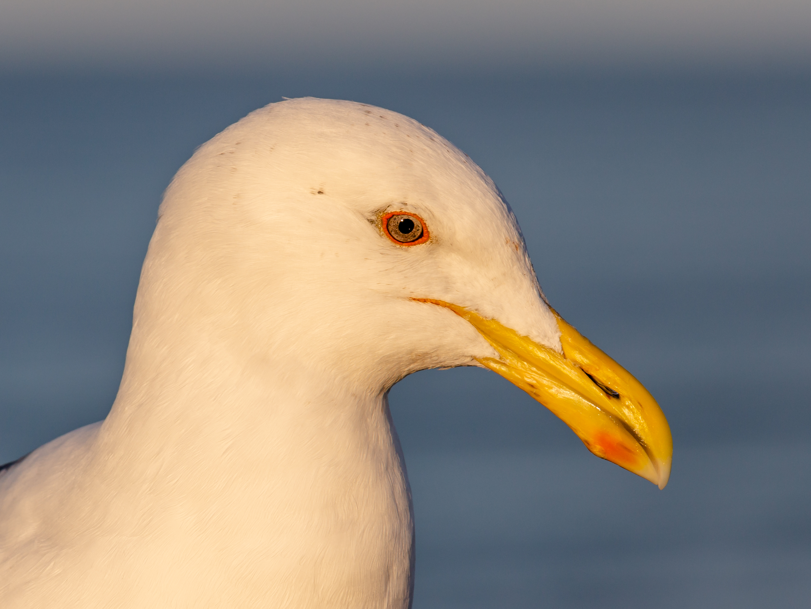 Kelp gull (Larus dominicanus) - portrait, New Brighton, New Zealand